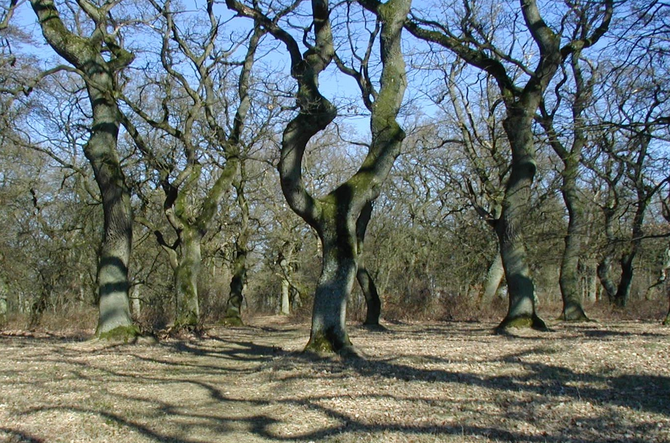 Oak forest at Langaa, Jutland. One of the last forests in Denmark still being used for grazing.